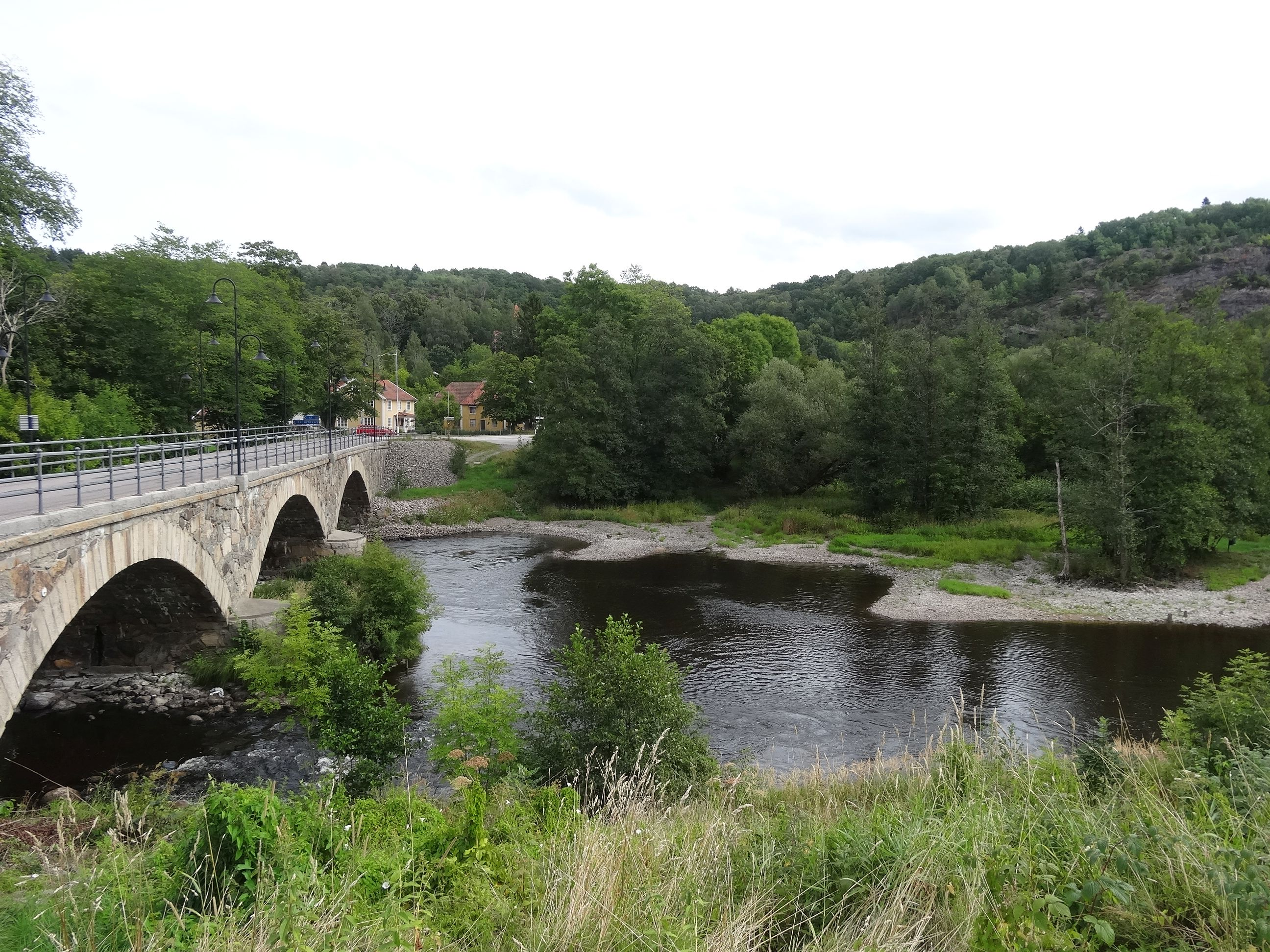 The Kvistrum bridge, Munkedal, Sweden seen from southwest.